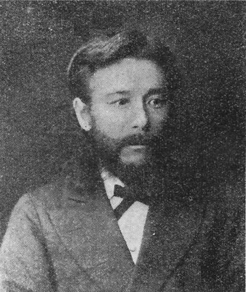 Photo of Hyakutake Kaneyuki